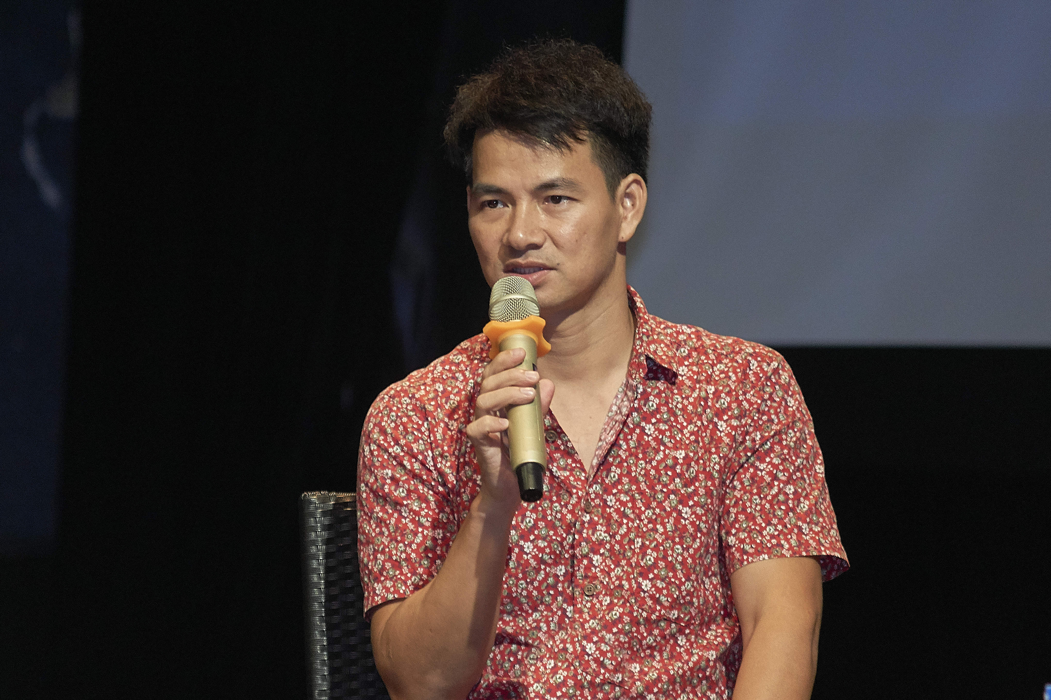 Xuân Bac at the French Institute of Hanoi, in 2019